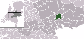 Locator map of Dutch municipalities (LocatieRheden.png)